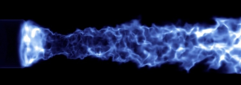 Volume rendered image of a large eddy simulation of a non-premixed swirl flame. [1] ↑ (2007). "LES OF THE SYDNEY SWIRL FLAME SERIES: AN INITIAL INVESTIGATION OF THE FLUID DYNAMICS". Combust. Sci. Tech.: 173-189.